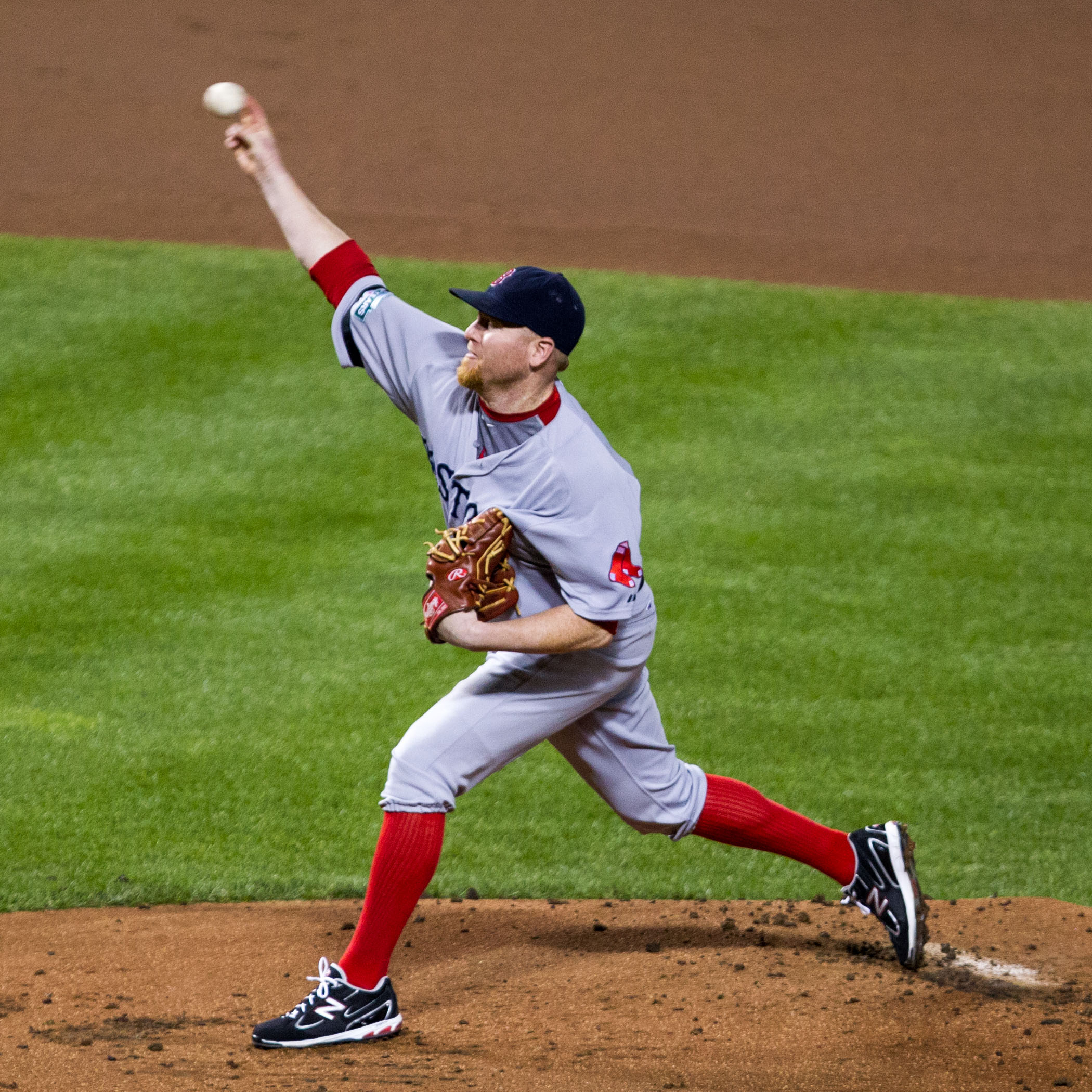 Aaron Cook